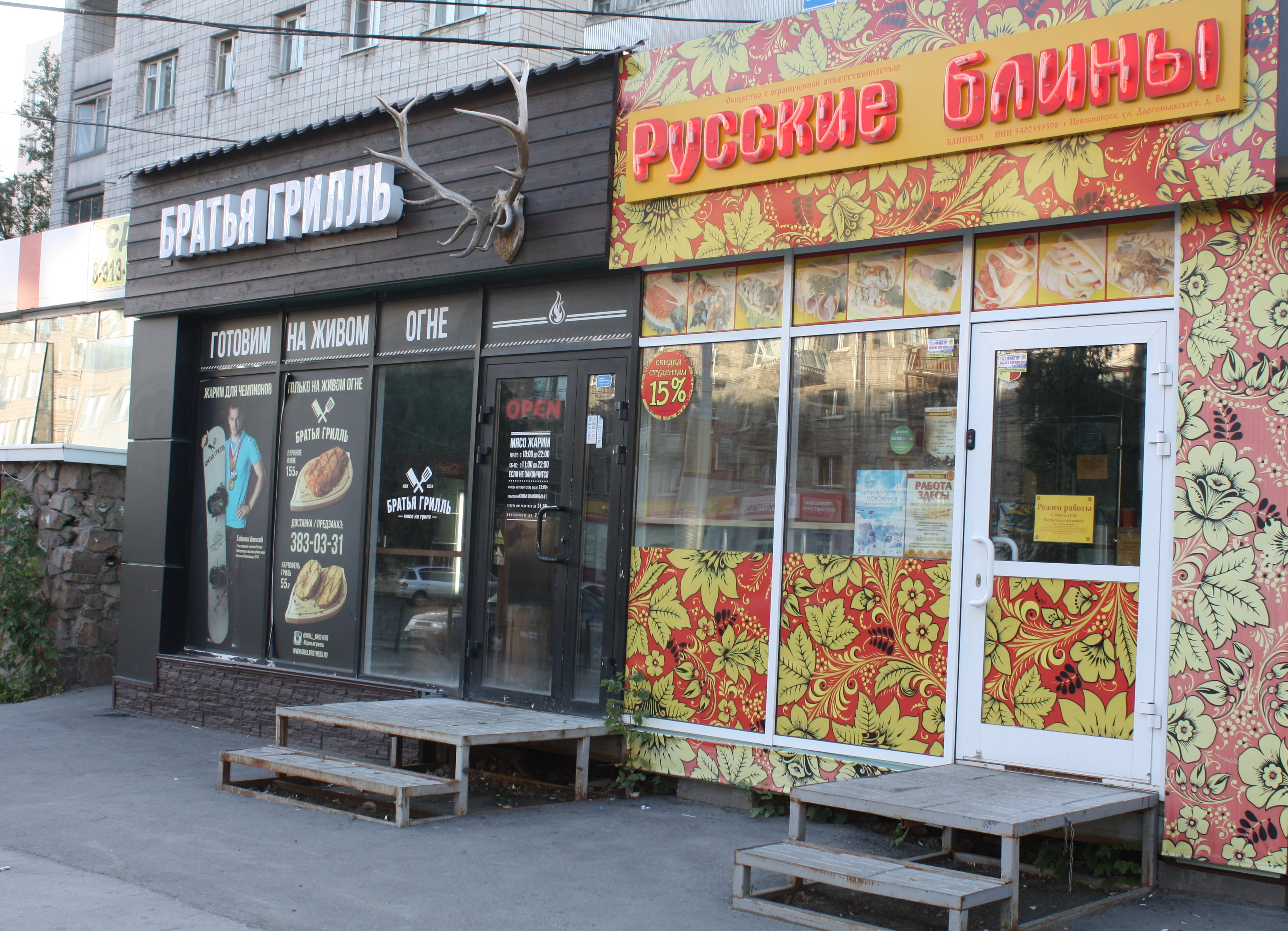 Grill cafe and blini-shop. Leninsky City District, Novosibirsk.